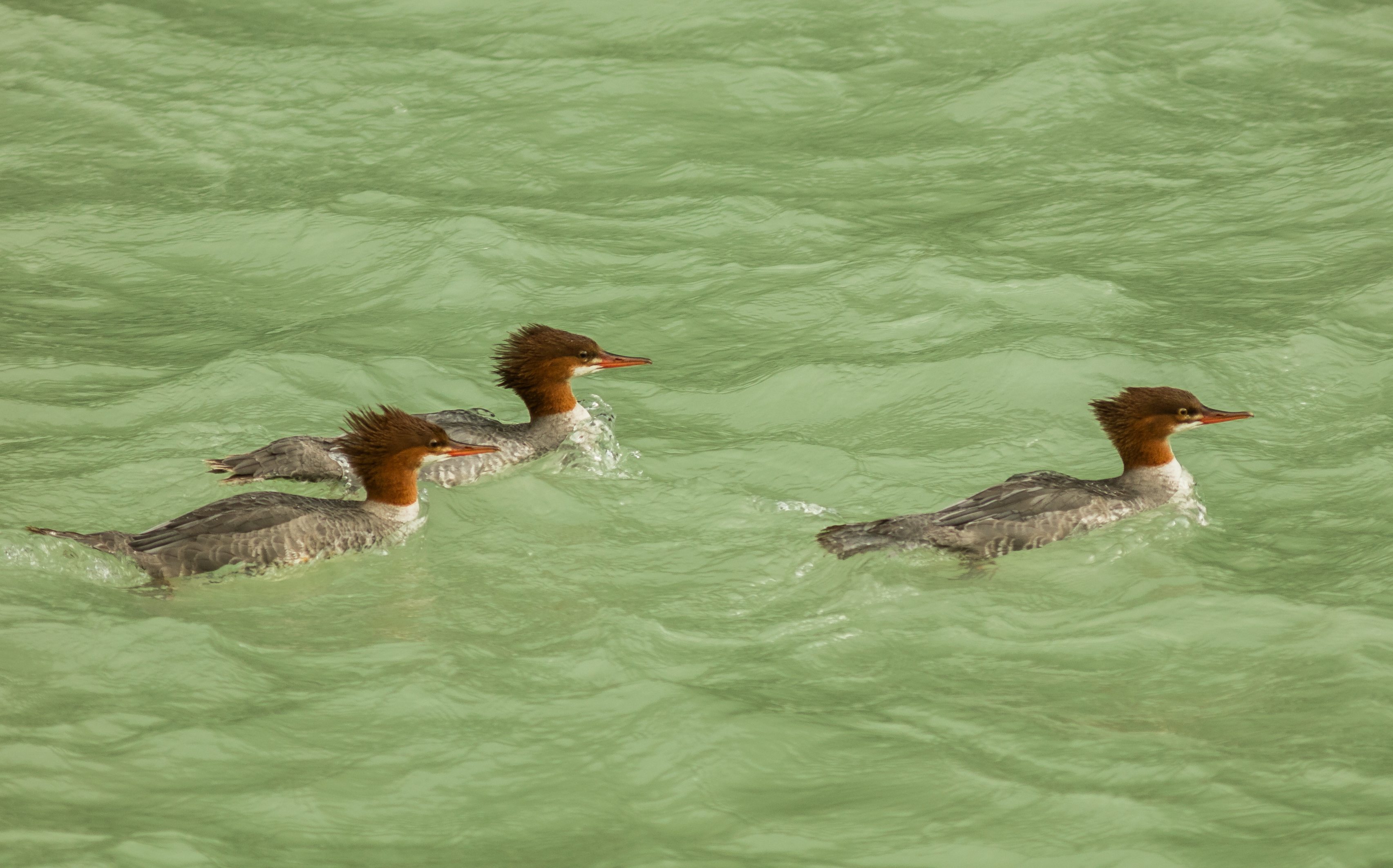 Red-breasted merganser (Mergus serrator), Chilkoot Lake State Recreation Site, Alaska, United States